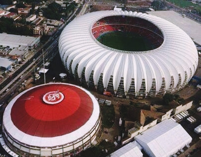 Beira-Rio Stadium - Porto Alegre - Brazil